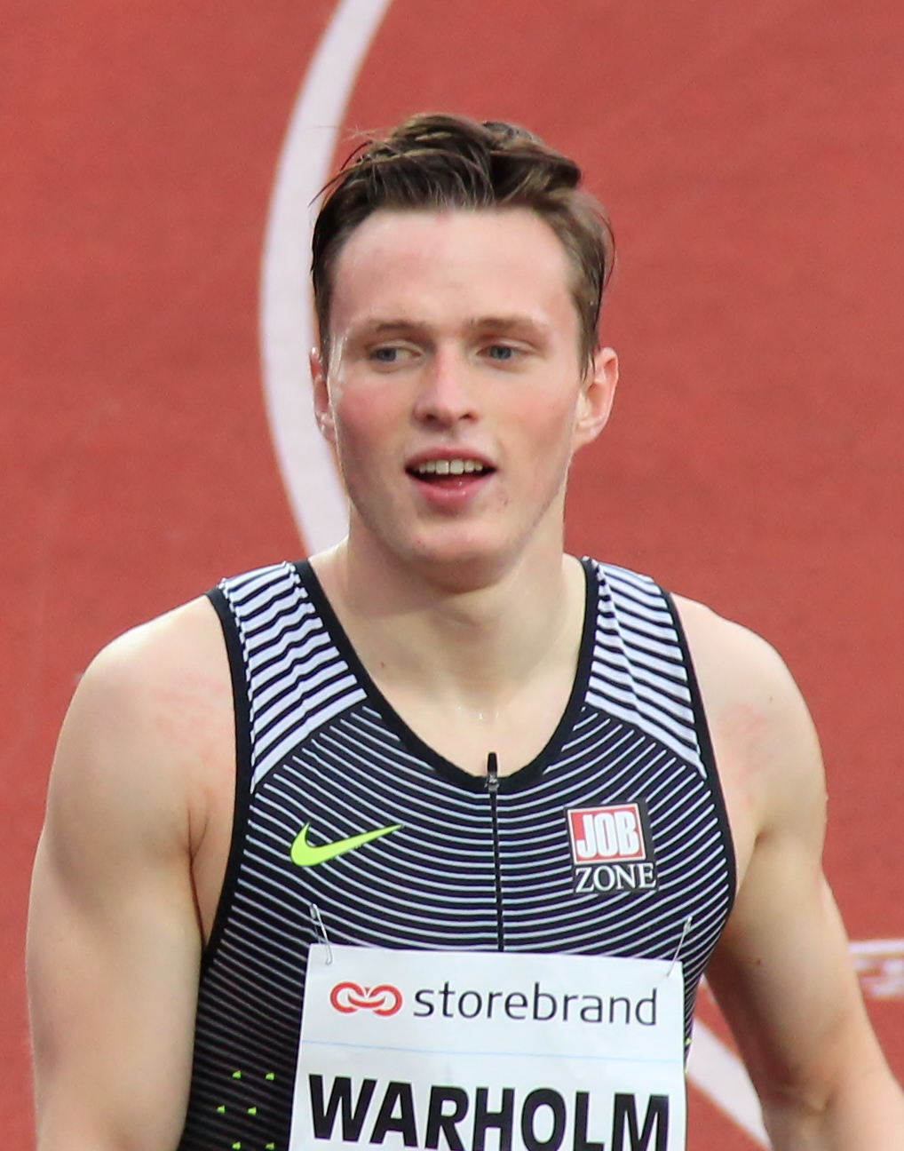 Karsten Warholm at the 2017 Bislett Games